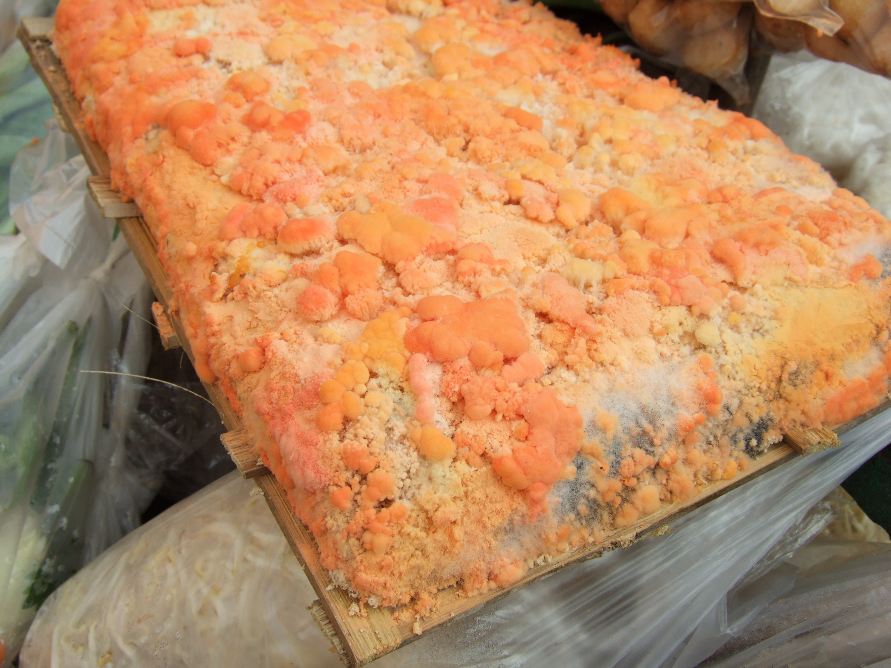 Red oncom made of tofu by-product